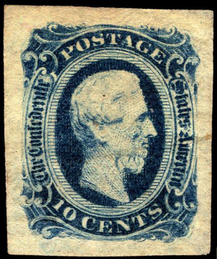 Confederate postage stamp, 1863 issue, Jefferson Davis, 10c, blue, Type II